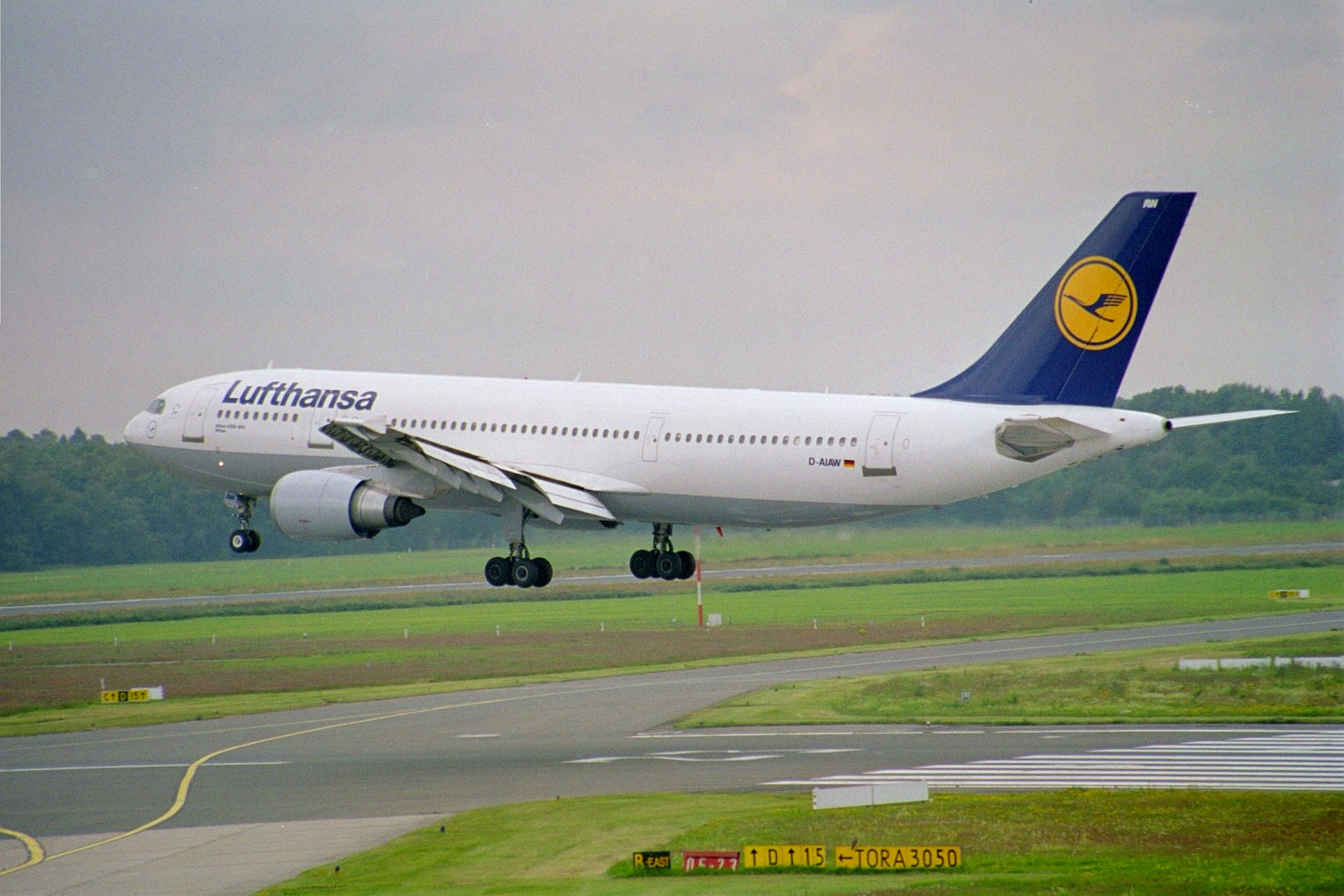 Lufthansa Airbus A300B4-605R (D-AIAW, "Witten") landing in Hamburg on Runway 23